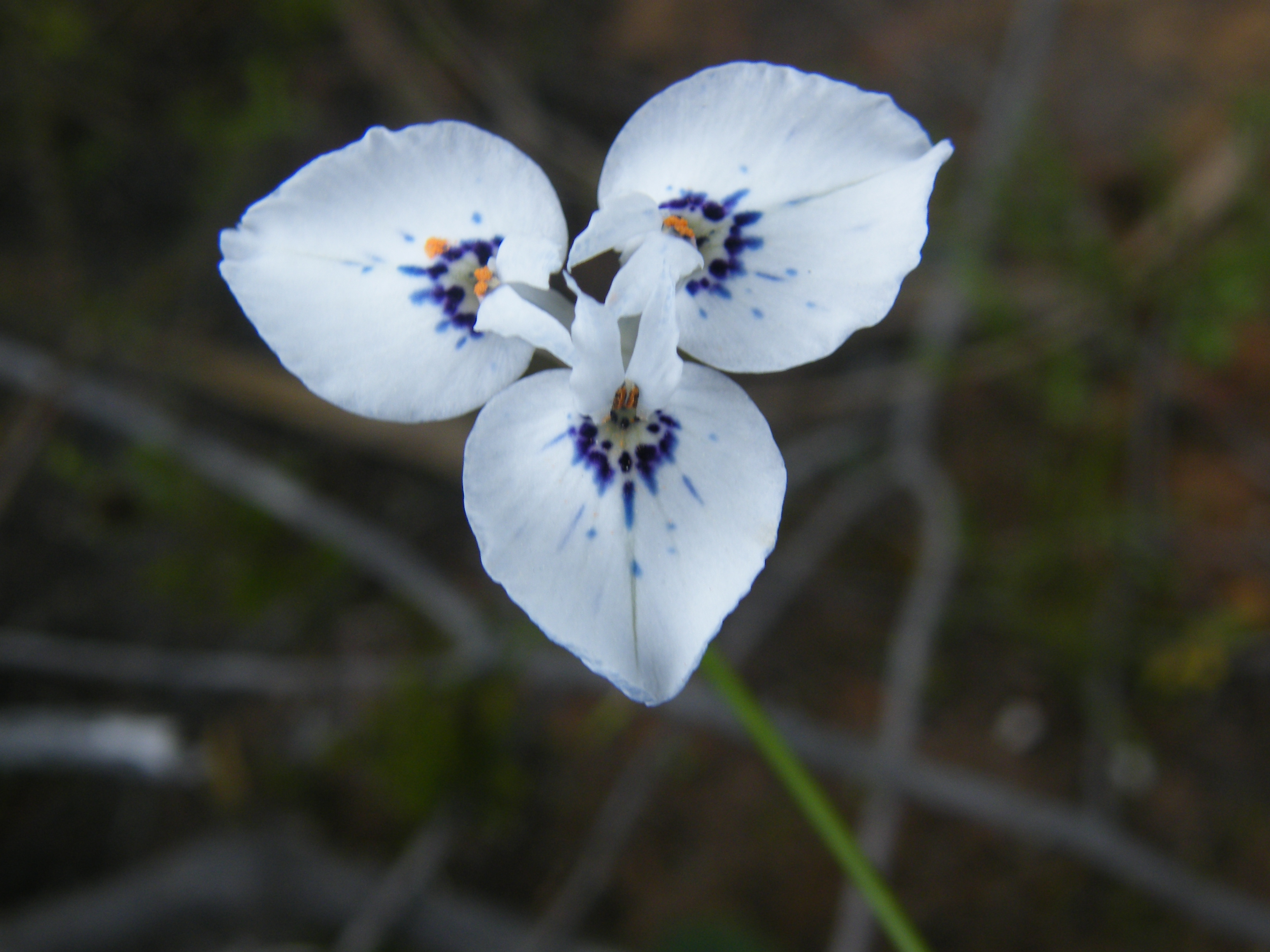 English